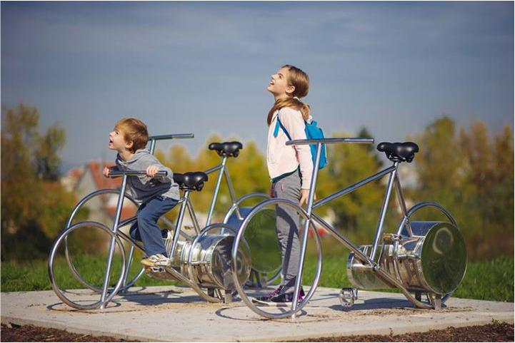 Dynamo I Love